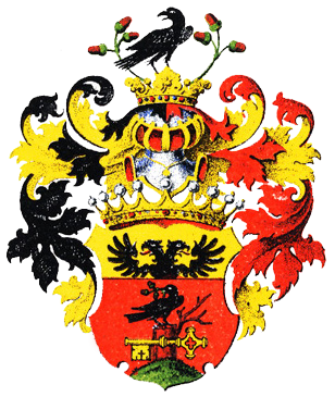 Graf Biron. Coat of Arms of Biron counts